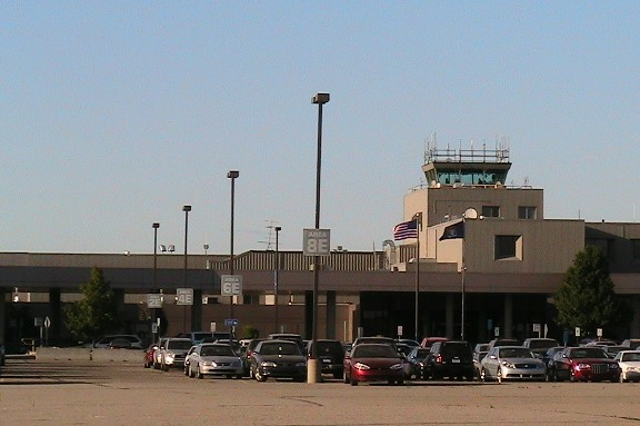 Capital Region International Airport terminal building taken from parking lot - my own photograph taken September 2009